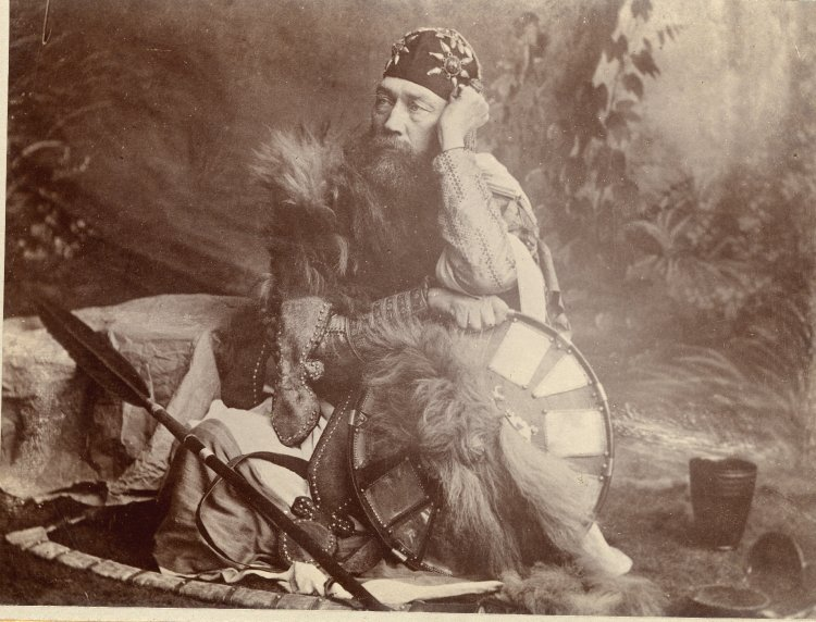 Portrait of the British Navy Capt Tristram C S Speedy wearing Ethiopian military or noble costume. 16.4 cm x 10.72 cm. Courtesy of the British Museum, London.